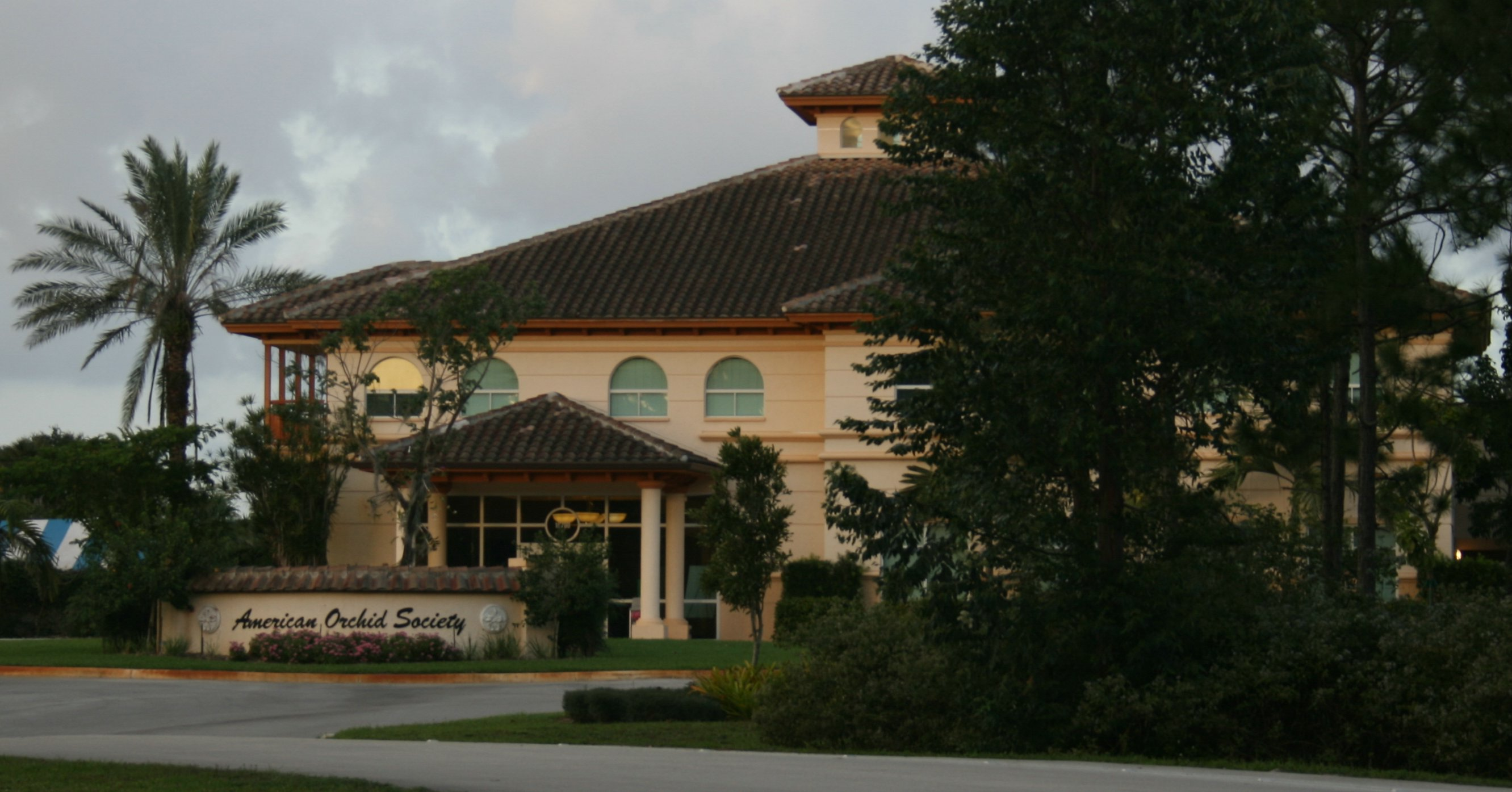 From en.wiki. Original description: Taken as an afterthought while leaving the Morikami Japanese Gardens. Taken while driving (didn't have time to fix the lighting). Taken right after the picture of the sign I also uploaded. --Douglas Whitaker 23:58, 2 January 2007 (UTC)